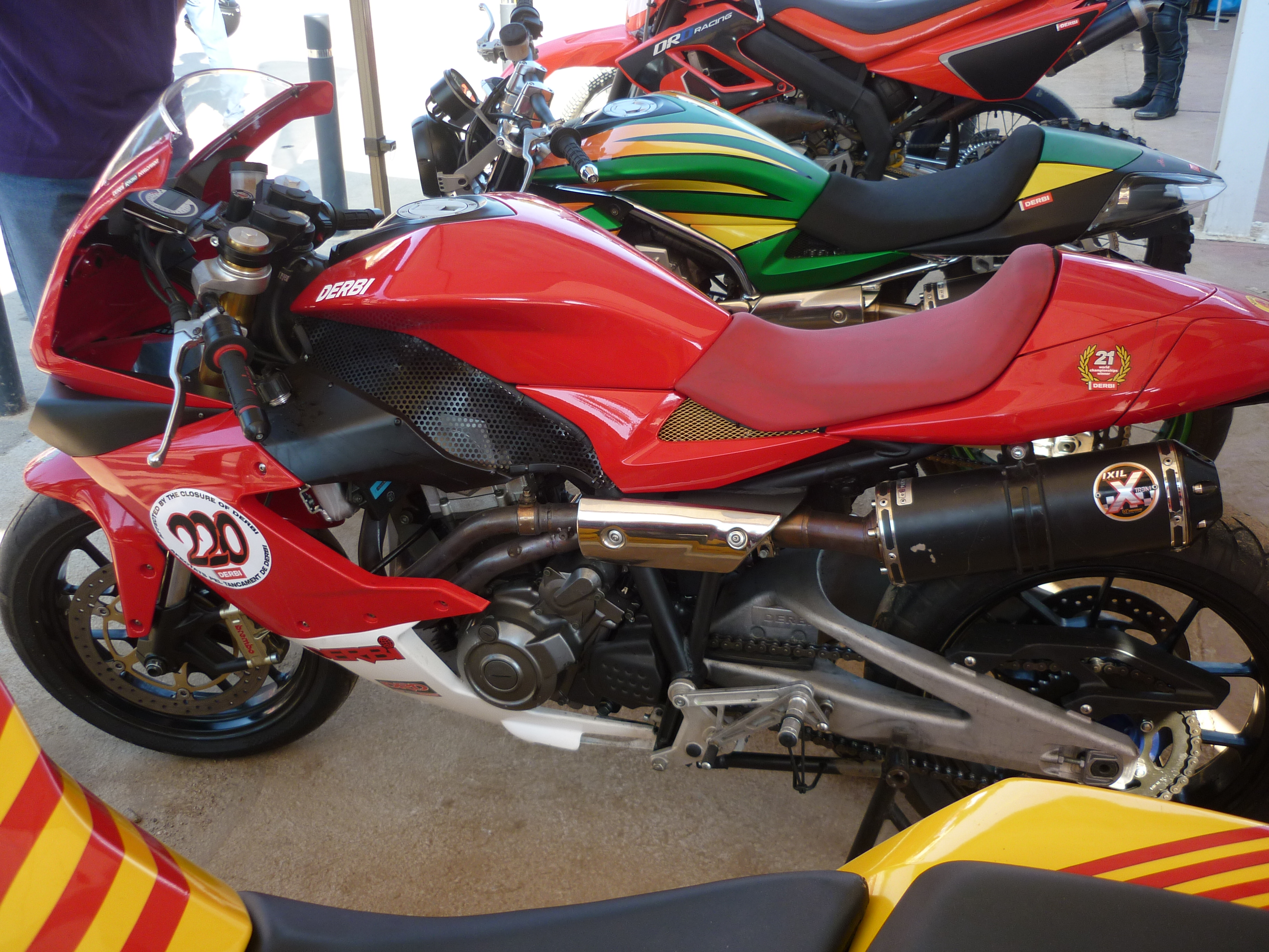 Derbi Mulhacen 659 (2006). Motorcycle meeting held on September 10, 2011 in Can Carrancà (near the Derbi factory in Martorelles, Catalonia).